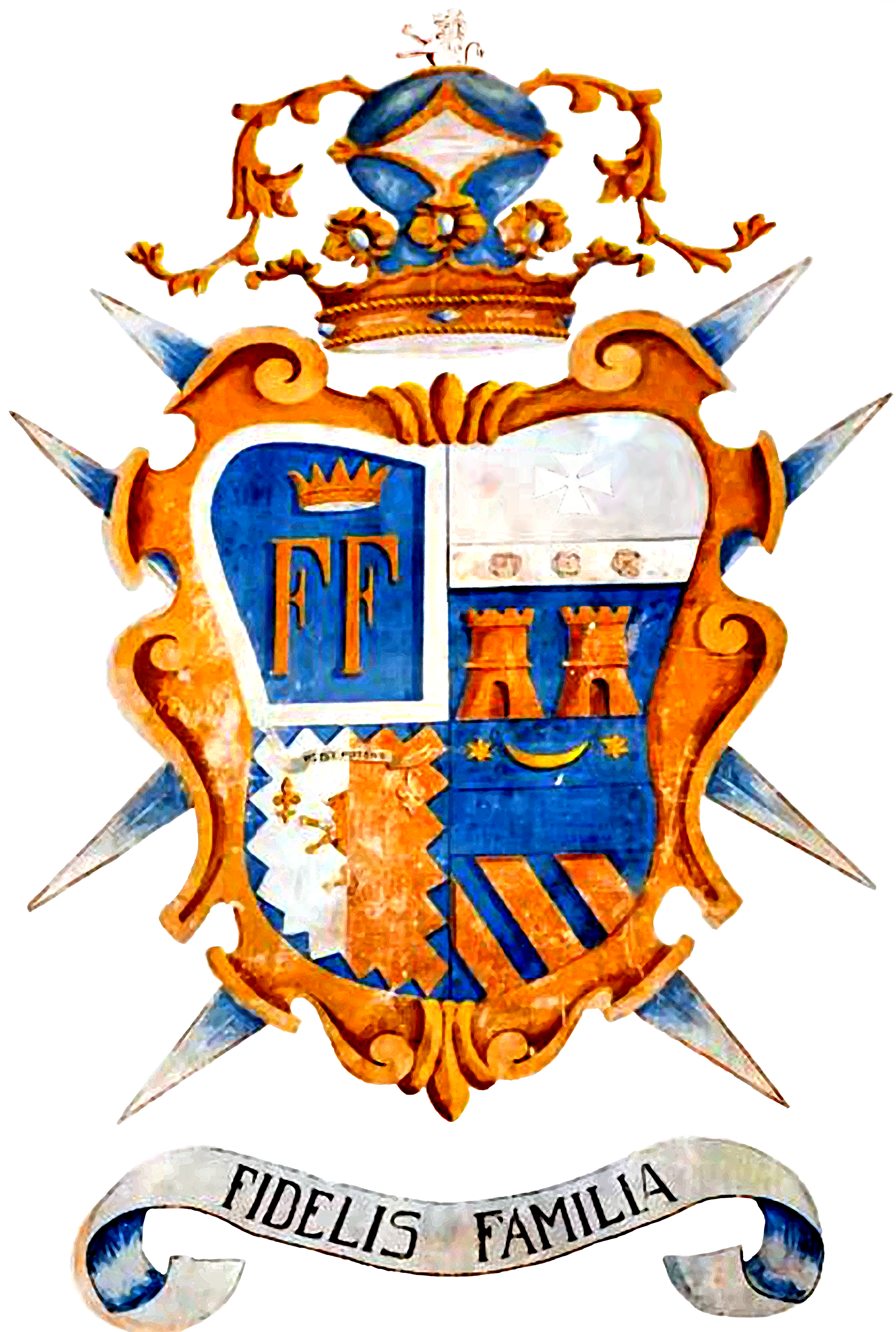 Outstanding Military service to the King 1655